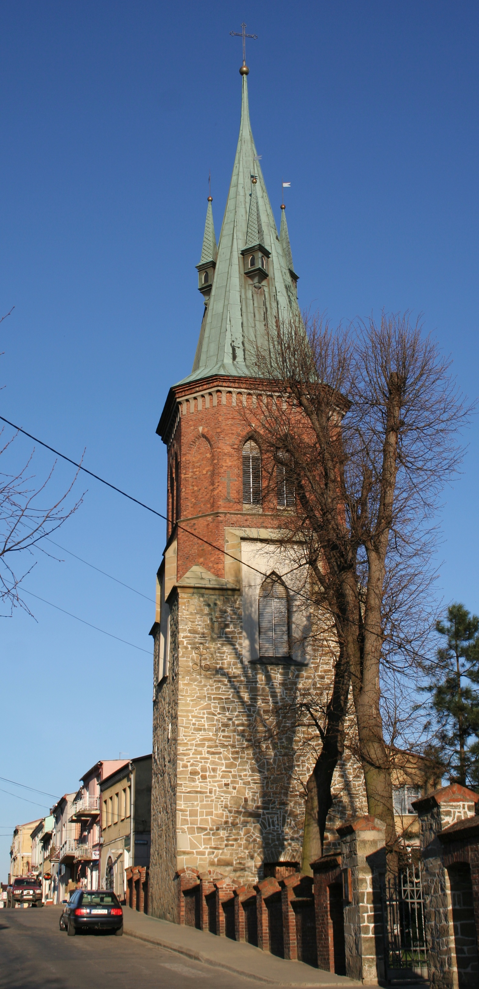 The church in Strzyżów, Poland.